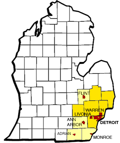 The Detroit-Warren-Livonia MSA and Detroit-Warren-Flint CSA.